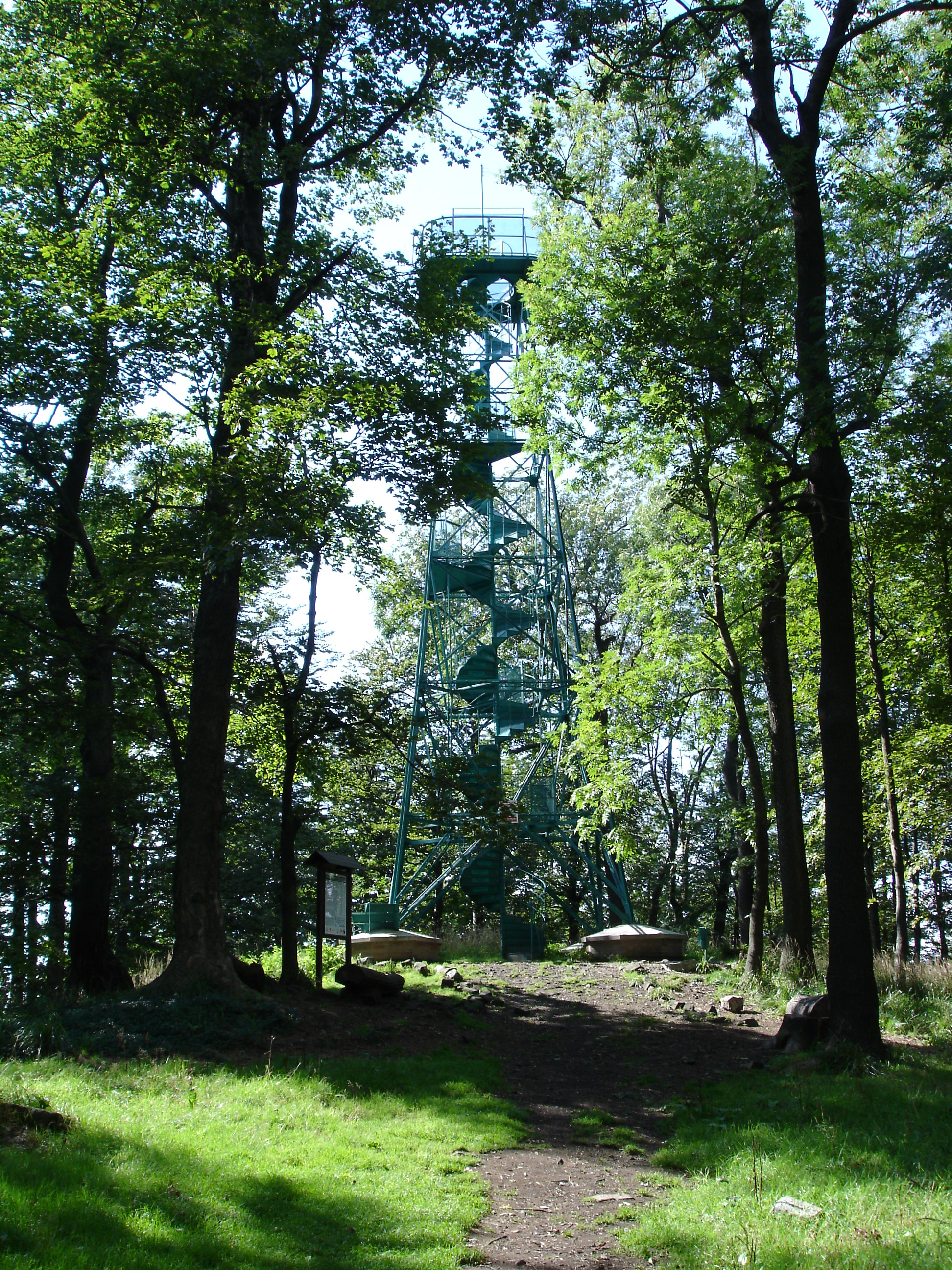 New look-out on Studenec (mountain in Lužické hory, Czech Republic), build in 2008/2009